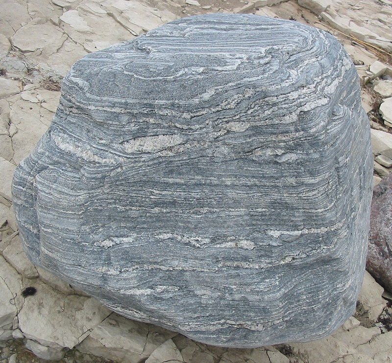 Migmatite on the coast of Saaremaa (Estonian island). Rock's diameter is approximately one meter